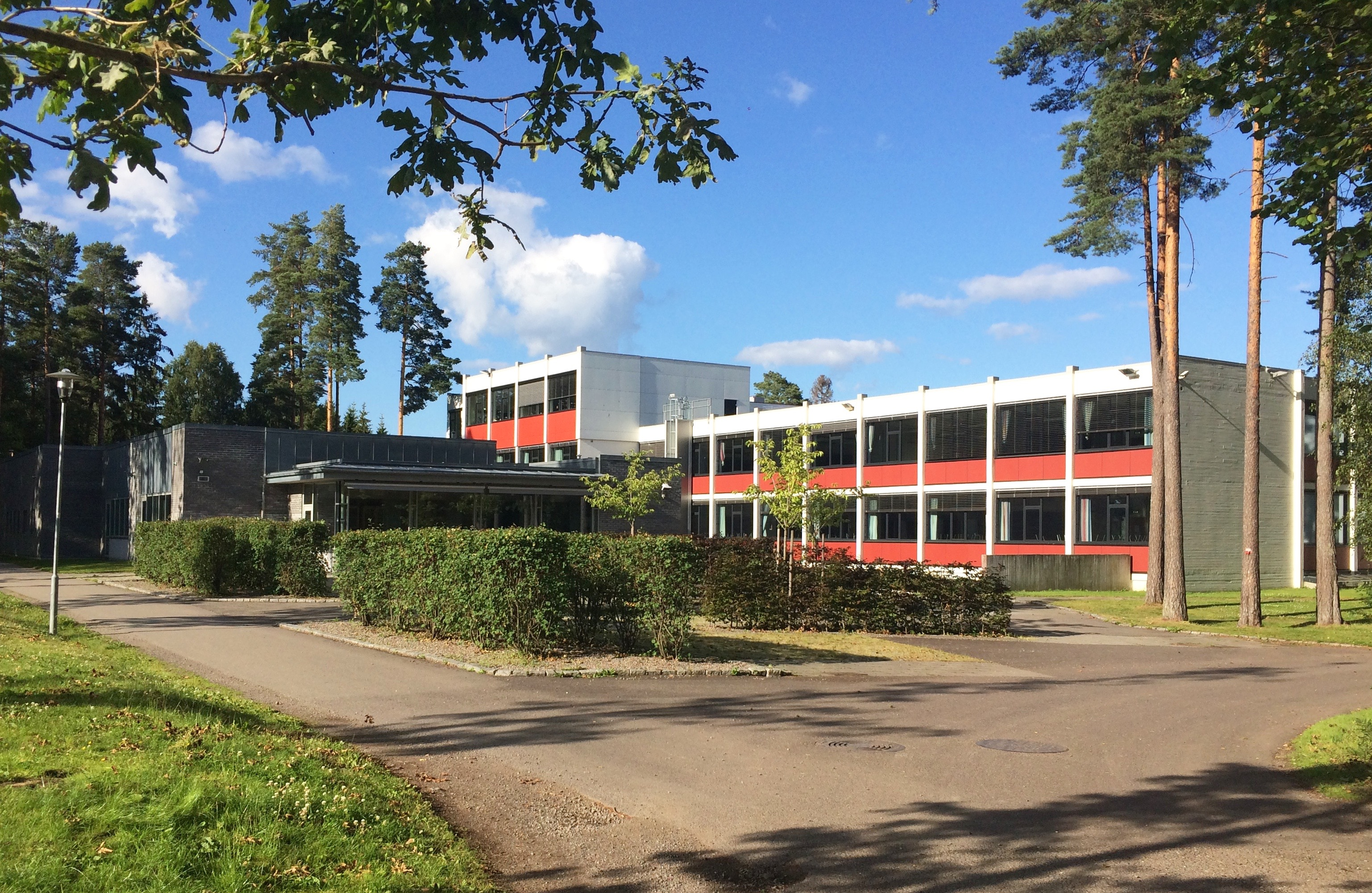 Greveskogen vgs school Toensberg Norway 2015-07-22 02